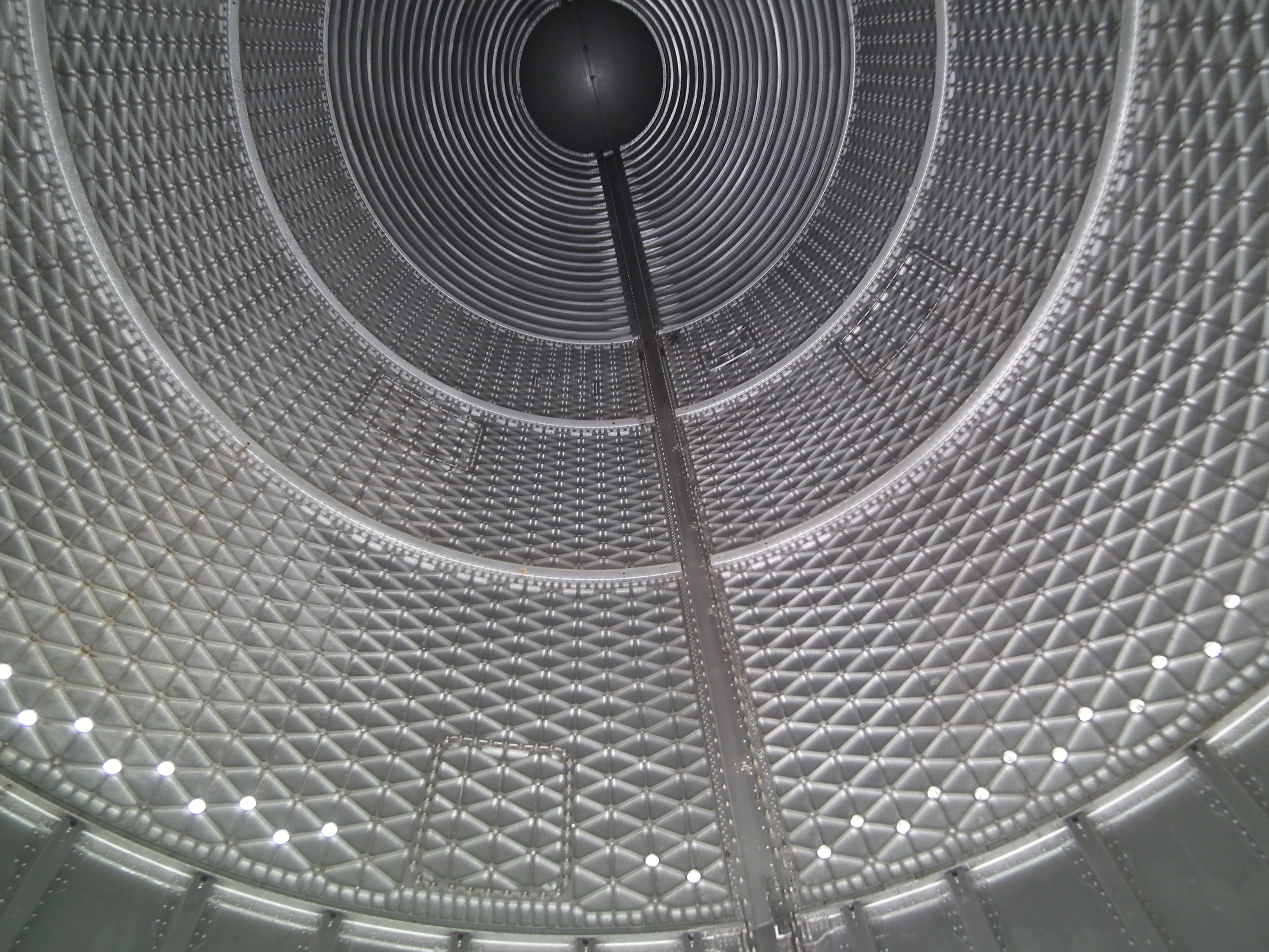 Full size heat shield of PSLV displayed at HAL heritage centre and aerospace museum bangalore Inside of a Full size heat shield of PSLV